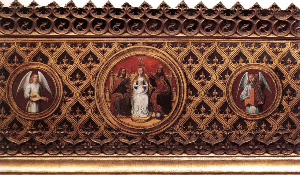 St Ursula Shrine Gilded and painted wood, 87 x 33 x 91 cm Memlingmuseum, Sint-Janshospitaal, Bruges